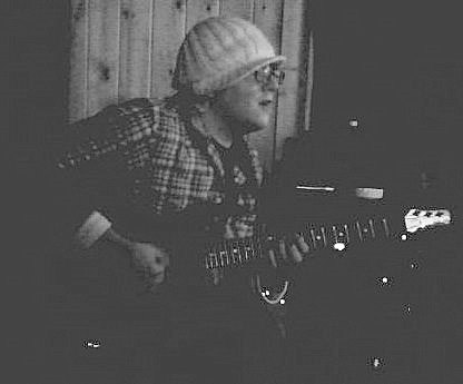 Josh Eppard, Kingston NY, January 2009.